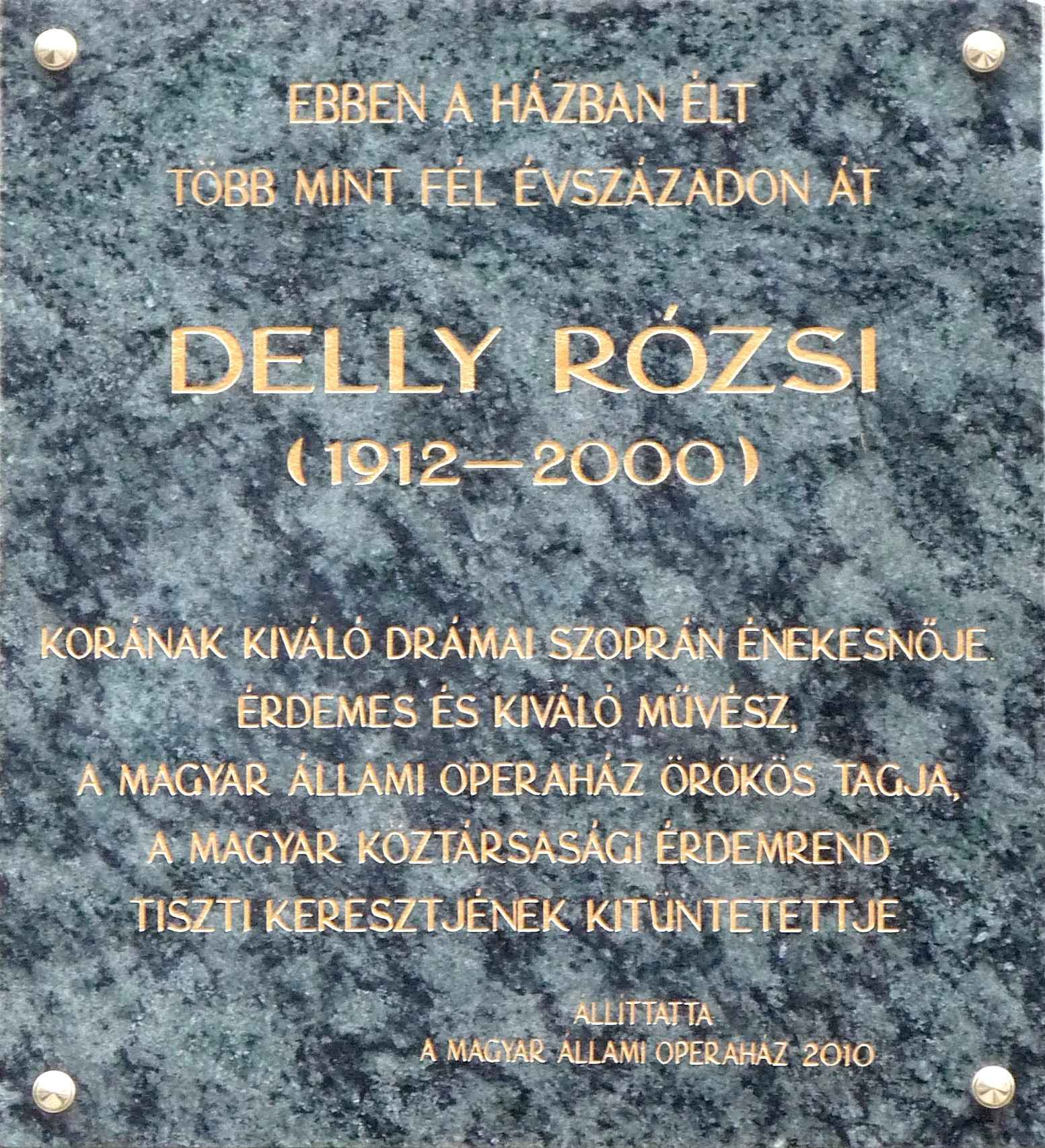 Rózsi Delly commemorative plaque in Budapest District VIII, Stáhly Street No 2/a.